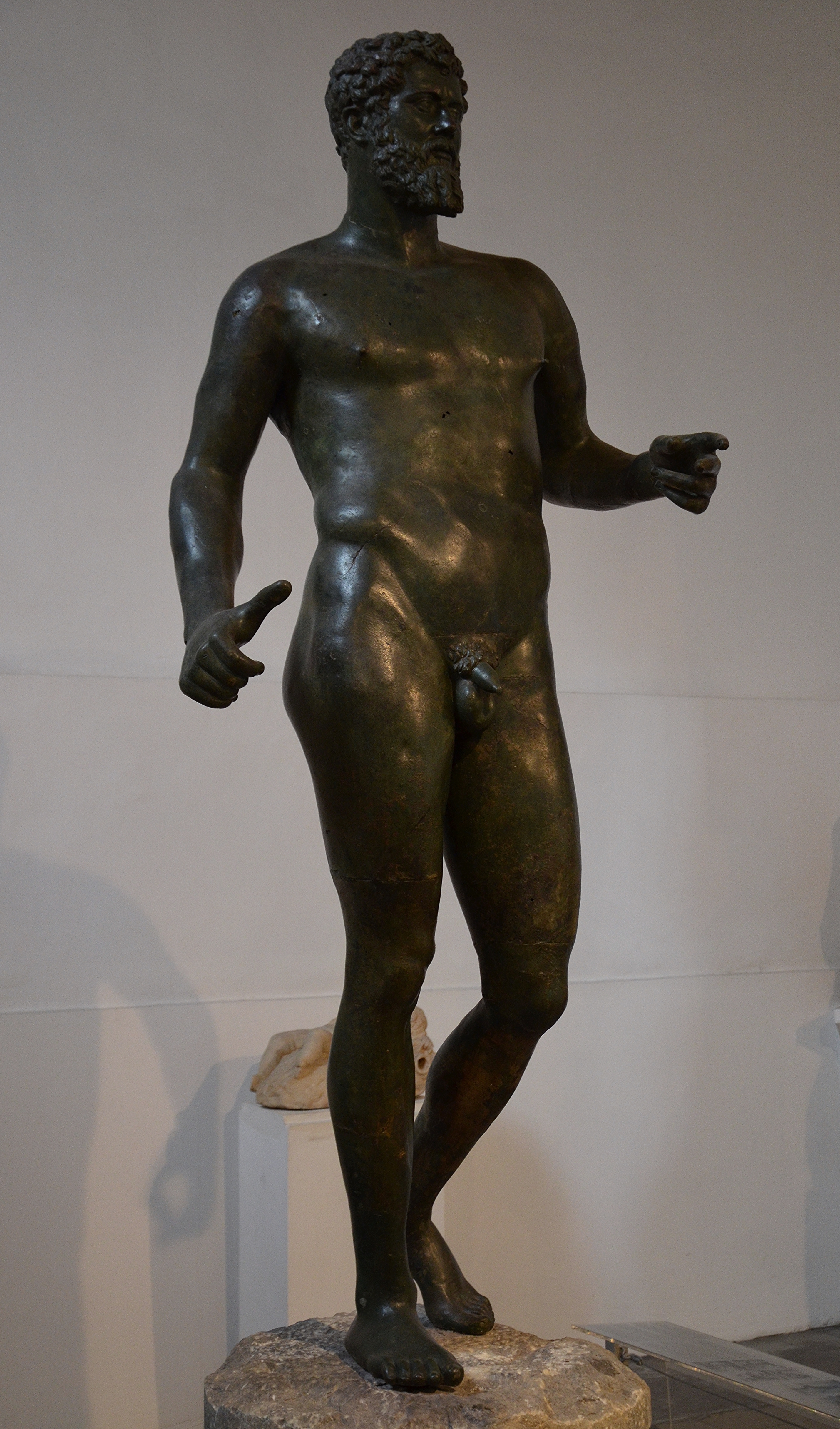 The position of the hands suggests that he once held a spear and shield of perhaps a small trophy. If the latter, the emperor appeared in the guise of Mars Victor.